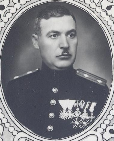 Bulgarian general Nikola Nakov, 1931-1932